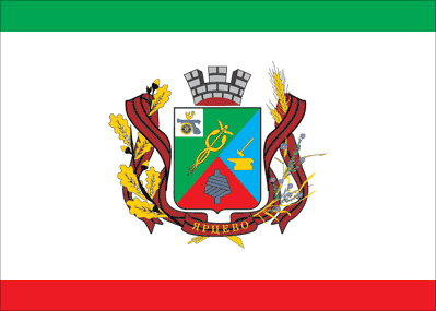 Flag of Yartcevo, Smolensk Oblast, Russia